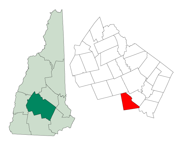 Map of a municipality in Merrimack County, New Hampshire